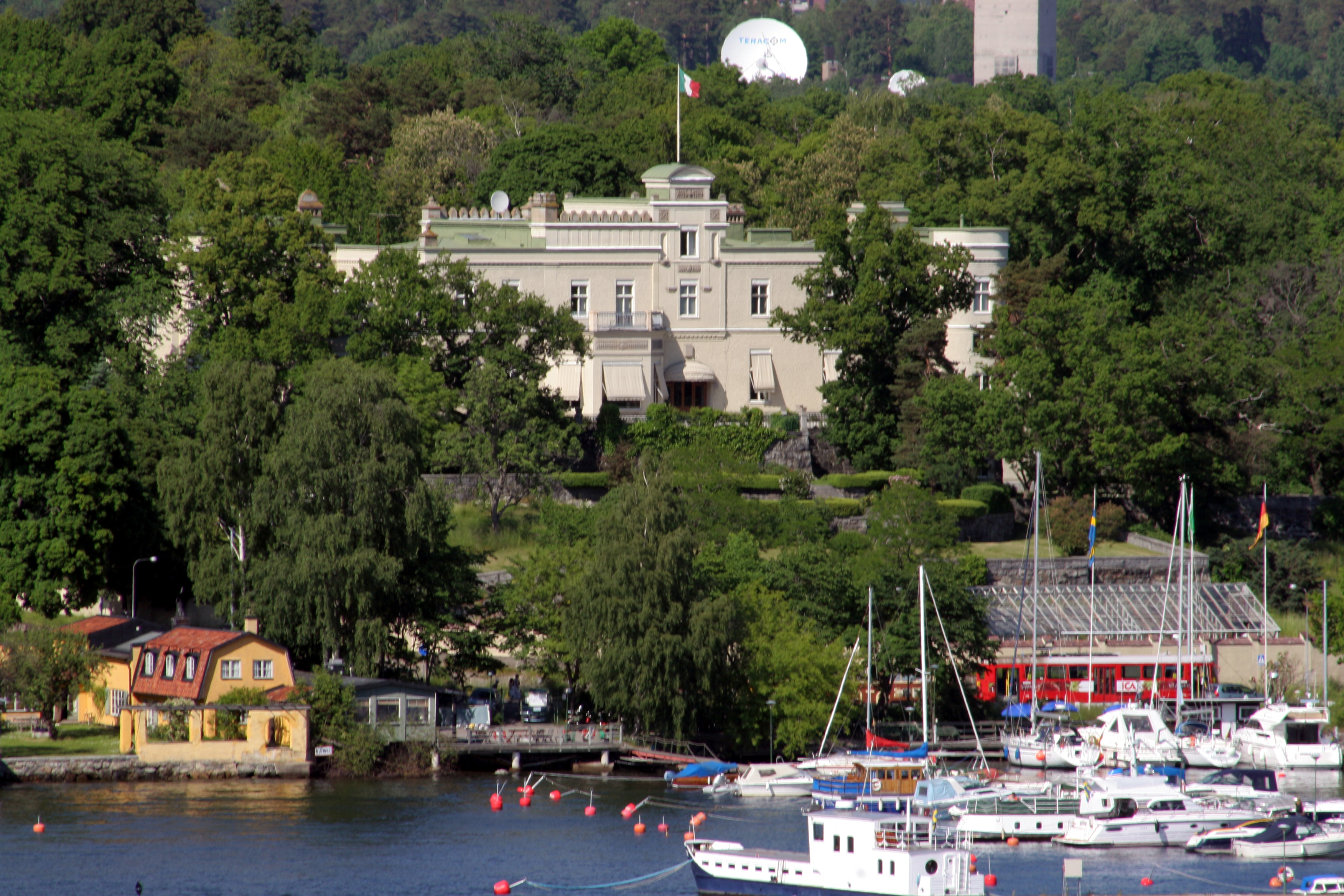 The Italian embassy in Stockholm, Sweden. In the lower right of the picture a tram at Djurgårdslinjen can be seen. Picture taken from café Fåfängan.